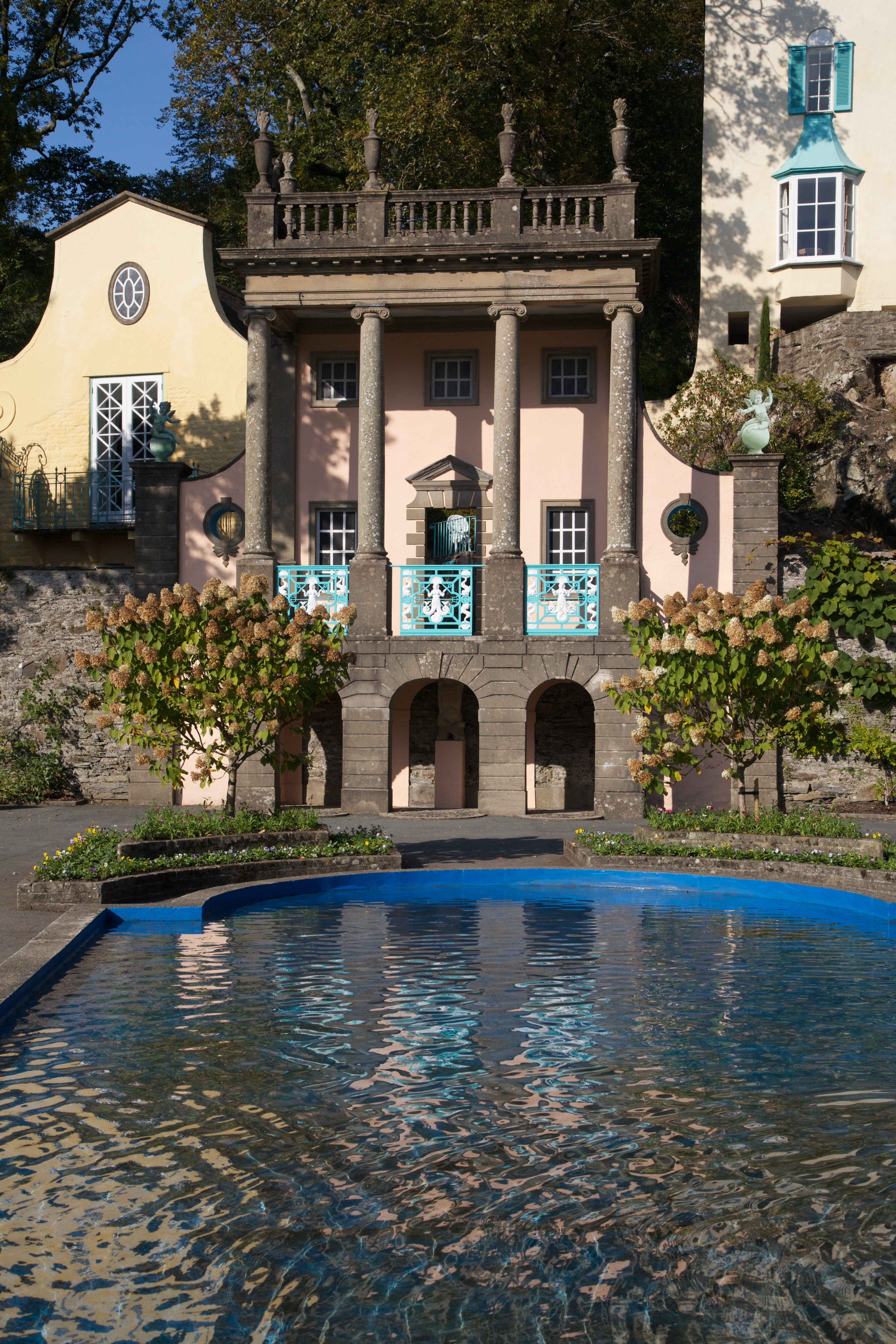 Gloriette Wikidata has entry Q29484469 with data related to this item.